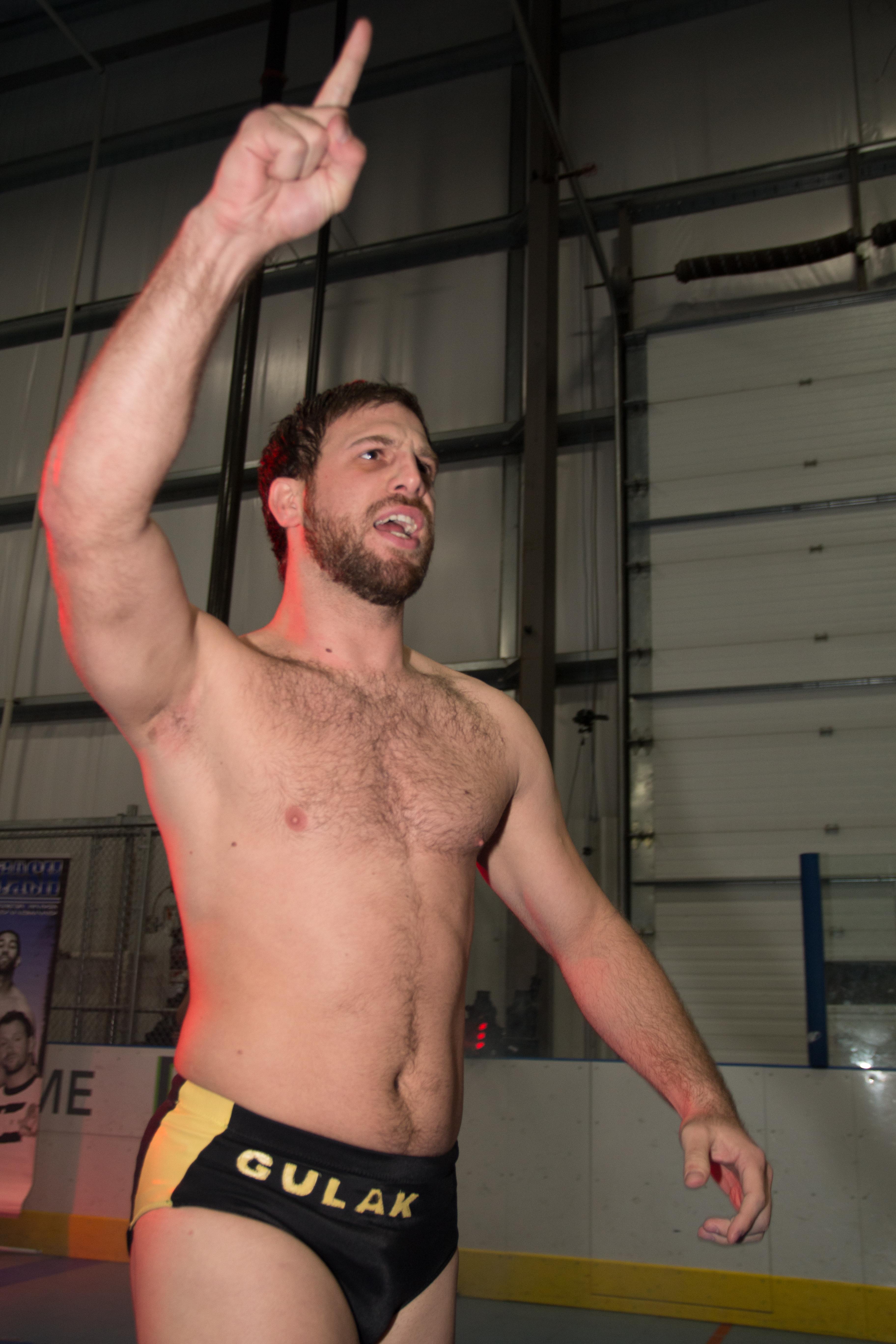 Independent wrestler Drew Gulak making his way to the ring at Smash Wrestling's Challenge Accepted show